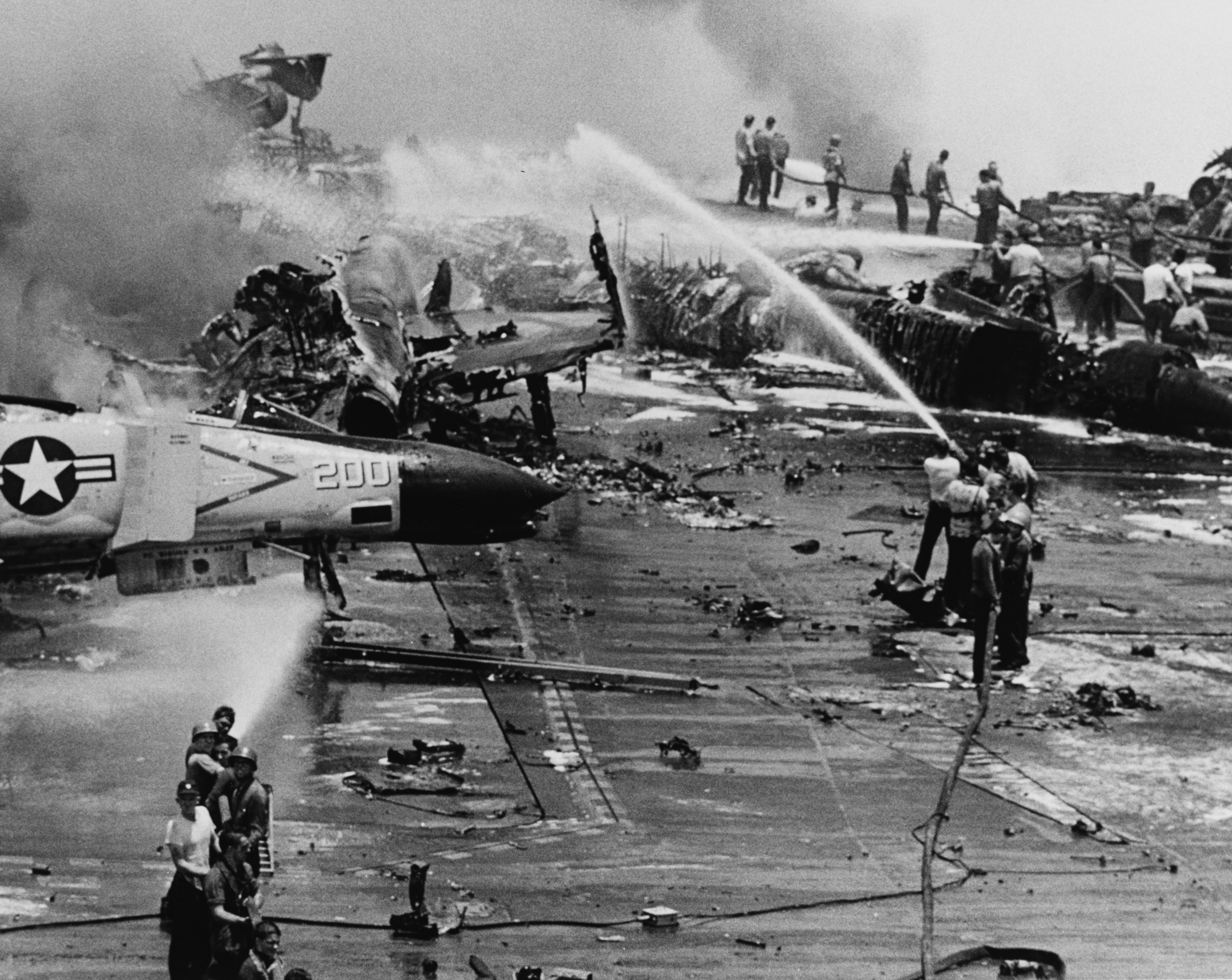 Crew members fight a series of fires and explosions on the carrier's after flight deck, in the Gulf of Tonkin, 29 July 1967. The conflagration took place as heavily-armed and fueled aircraft were being prepared for combat missions over North Vietnam. Removed caption read: Photo # USN 1124794 Crew members fighting fires on board USS Forrestal, 29 July 1967